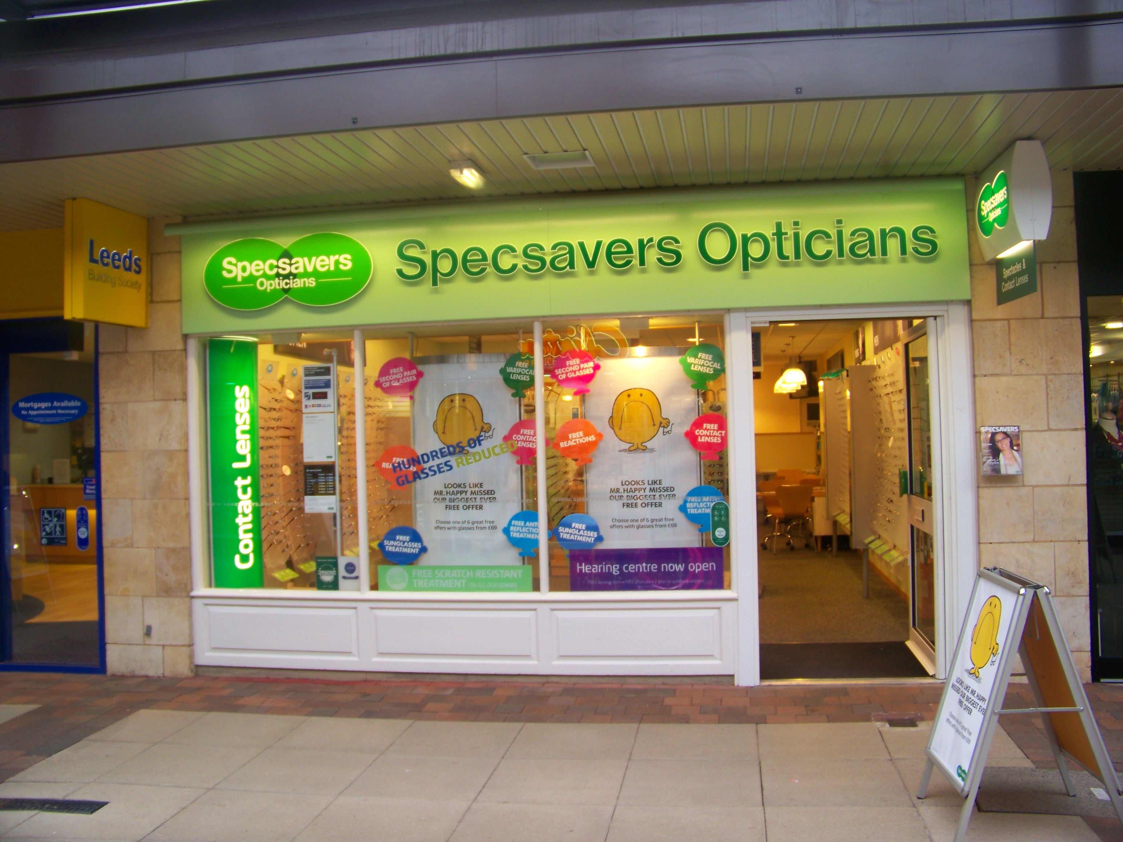 Specsavers Opticians in the Horsefair Centre in Wetherby, West Yorkshire. Taken on Thursday the 14th of October 2010.